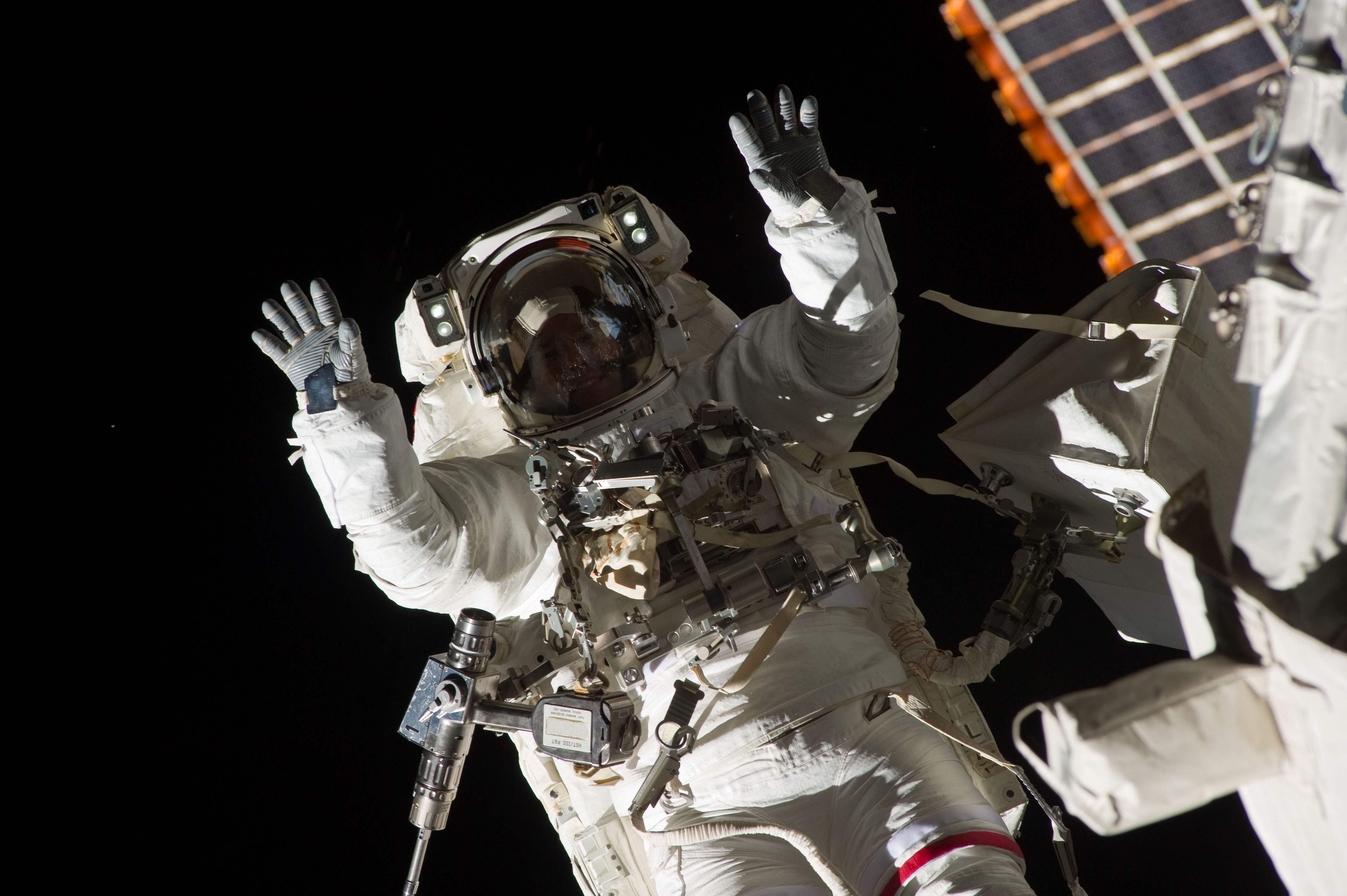 NASA astronaut Steve Bowen, STS-133 mission specialist, participates in the mission's second session of extravehicular activity (EVA) as construction and maintenance continue on the International Space Station. During the six-hour, 14-minute spacewalk, Bowen and astronaut Alvin Drew (out of frame), mission specialist, tackled a variety of tasks, including venting into space some remaining ammonia from a failed pump module they moved during the mission's first spacewalk.